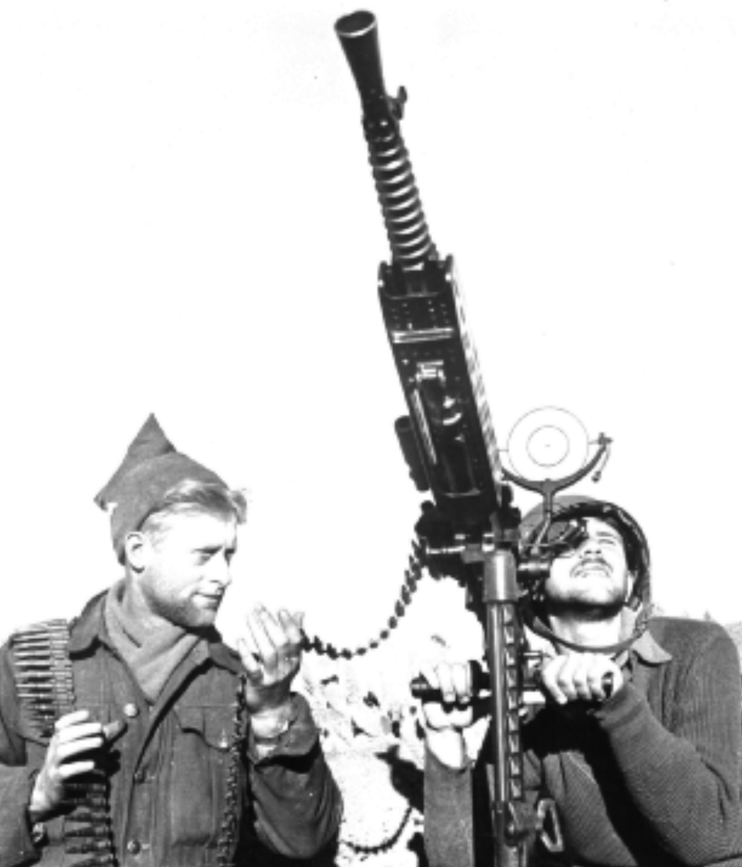 The Palmach, Israel Defense Forces